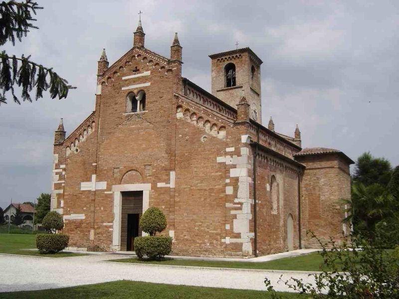 see same name image file